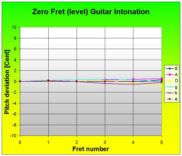 Real measurement data from a zero fretted 7/8 ROSSMEISL nylon guitar with "level" zero fret. The zero fret wire is same dimension as the rest of the fingerboard. The guitar has no pitch deviations on frets one and two.